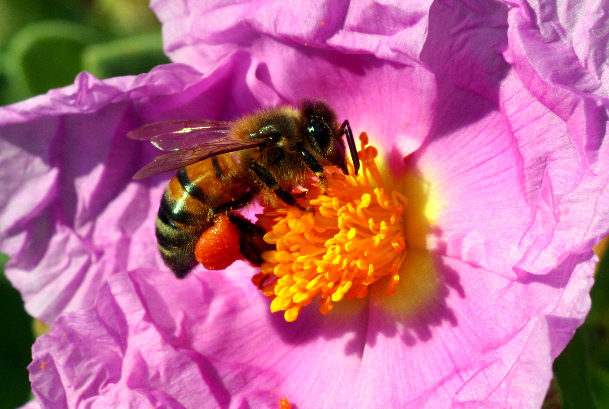 A common bee (Apis Mellifera) gathering nectar in a flower of cistus (Cistus albidus). Its hind leg is holding a ball of pollen.